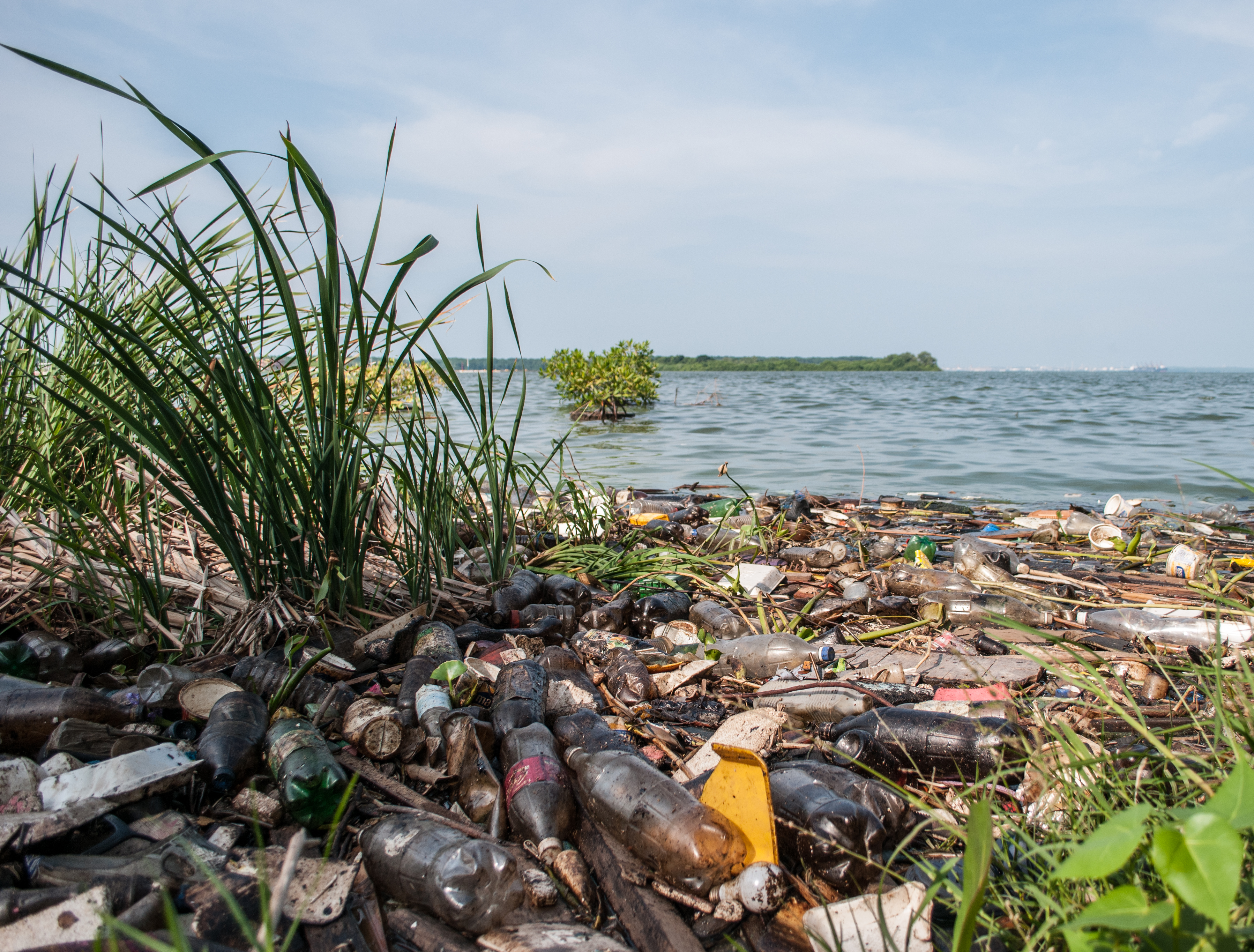 Maracaibo Lake situated in Estado Zulia Venezuela is the biggest lake of South America with an area of 13820 km2[1], it is frequently to look this kind of pollution along of its coasts. It has lemna, oil spill, human waste as main pollutant. The uncontrolled agricultural activities, mining and industrial done in Maracaibo Lake Basin had started a rapid process of eutrophication on this place[2].